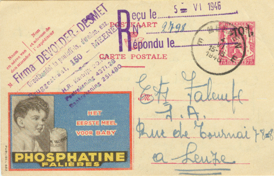 a stamped yellow card that was devaluated after WW II with 10% in 1946 by stamping it with a '-10%', this was done in Belgium